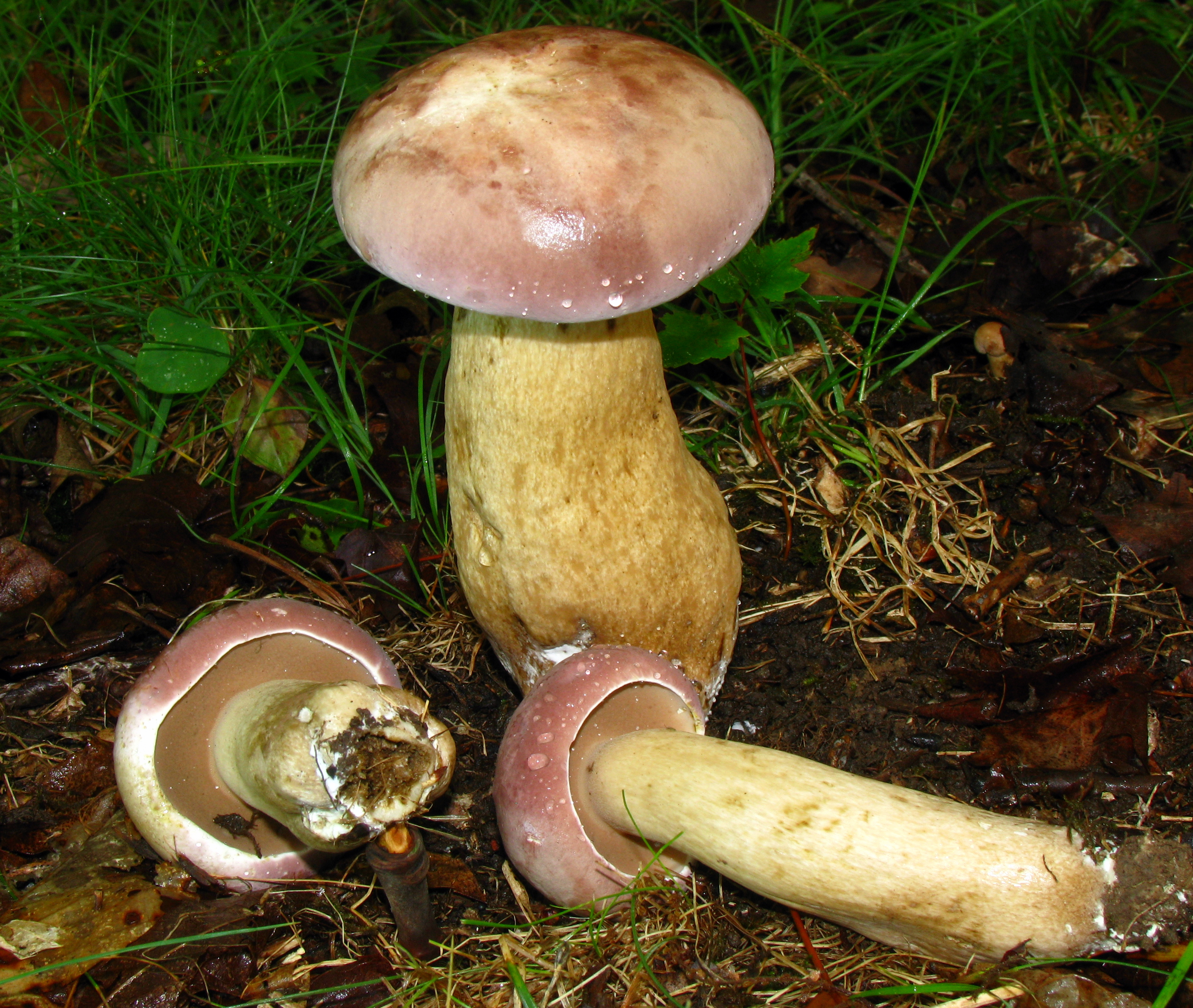 Tylopilus rubrobrunneus Mazzer & A. H. Smith Location: Rest Area, north bound, State Highway 33, between Pomeroy and Athens, Ohio, USA For more information about this, see the observation page at Mushroom Observer.